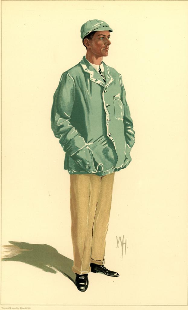 Caricature of Sydney Ernest Swann - “The Light Blues Stroke”.